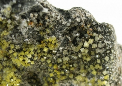 Arsenolite (Size: 6.0 x 4.3 x 2.9 cm) Locality: White Caps Mine, Manhattan, Manhattan District, Nye County, Nevada, USA (Locality at ) Arsenolite is an uncommon arsenic oxide, formed as an oxidation product of arsenic-bearing sulphides in hydrothermal veins. Highly lustrous and translucent, yellow-green and colorless octahedrons are festooned on the sulfide matrix on this very rich and showy piece from the famous White Caps Mine at Manhattan, Nevada. The White Caps produced the finest USA stibnites. Old-time, very high quality and rich material. Ex. Howard Belsky Collection.